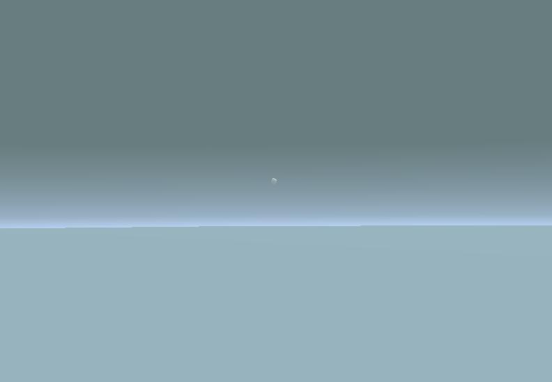 Simulated view of Ariel in the sky of Uranus.